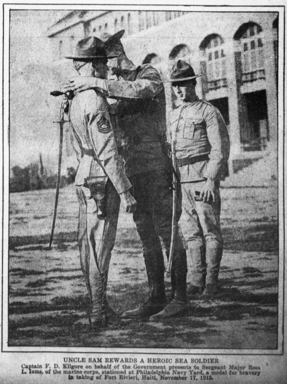 Captain F. D. Kilgore, on behalf of the government, presents to Marine Corps Sergeant Major Ross L. Iams, stationed at the Philadelphia Navy Yard, a medal for bravery in taking of Fort Riviera, Haiti, November 17, 1915.